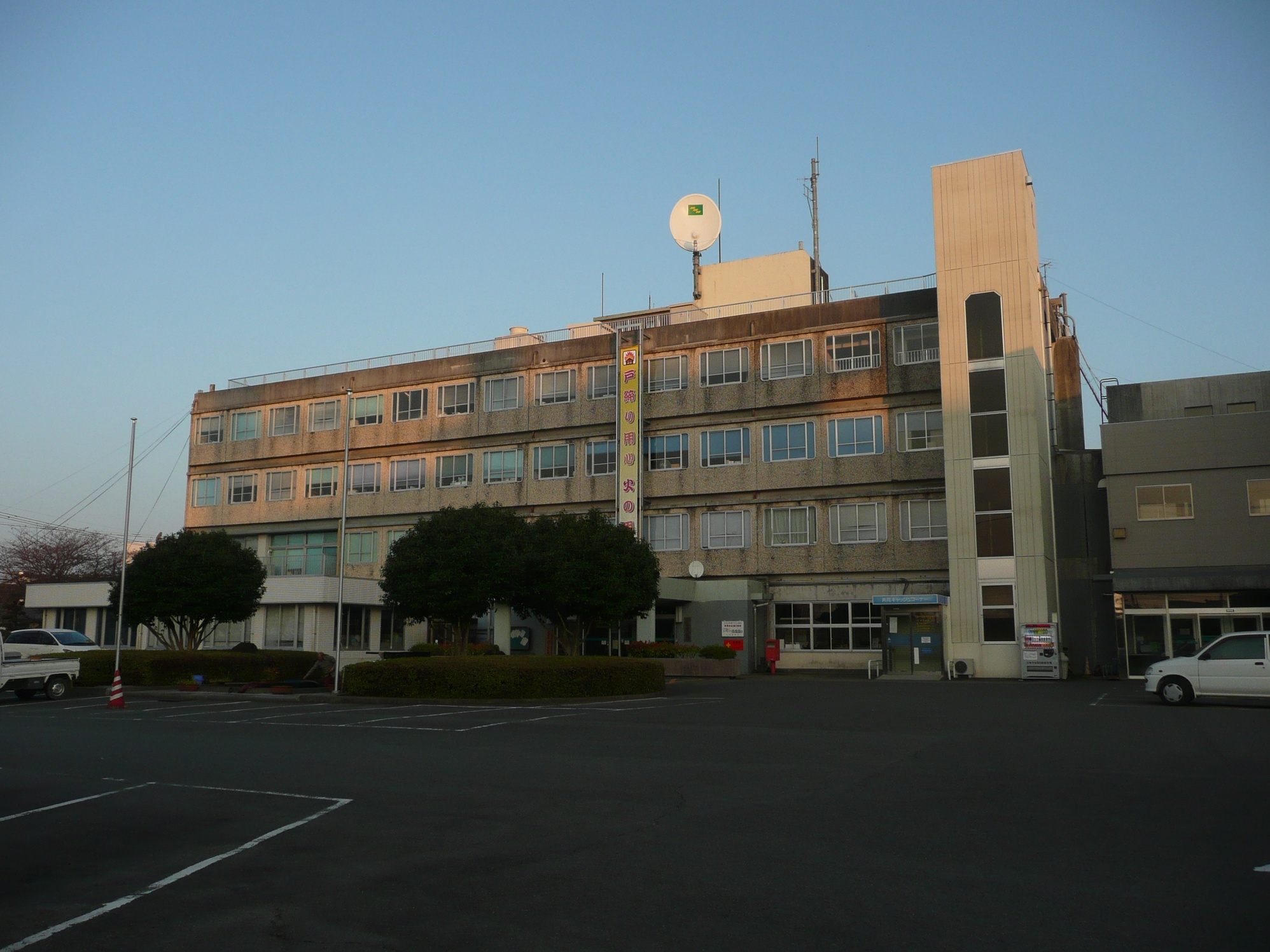 Kobayashi City Office (November 2009 - Miyazaki Prefecture, Japan)